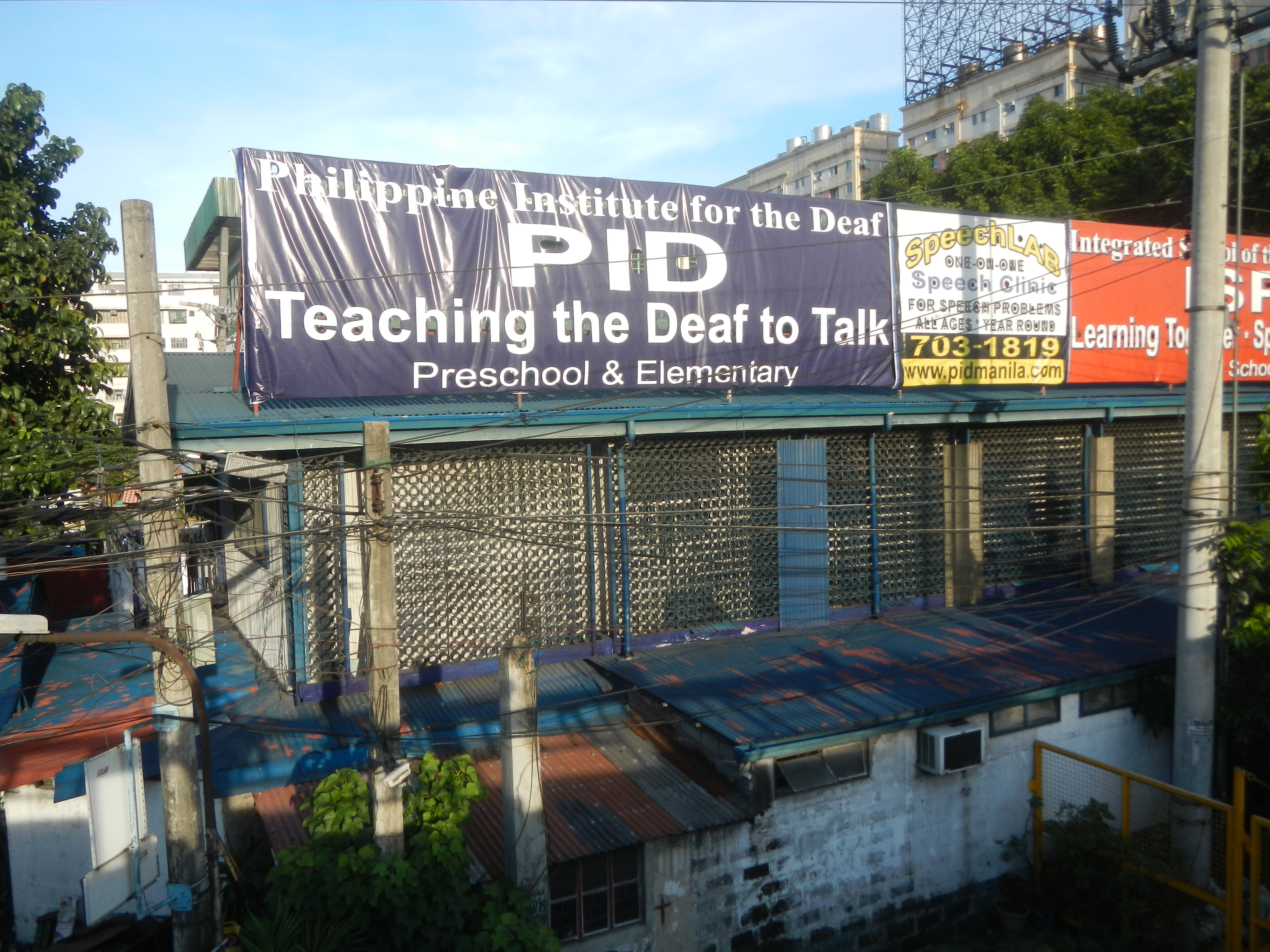 Mabini Bridge interconnecting with and from the A. Lacson Avenue-Mabini Bridge Fly-Over (Load Limit 20 metric Tons KM 10+367 to Mabini Bridge upon the Pasig River (Mabini Bridge - Paco-Pandacan-Sampaloc-San Miguel, Manila section) formerly Nagtahan Bridge Load Limit 20 metric Tons, KM 10+892 and KM 10+445.8 along Nagtahan Street was re-named Mabini Bridge on July 22, 1967 on the 103rd birthday of Apolinario Mabini from Lacson Avenue corner España Boulevard corners M. Earnshaw Street, Fajardo Street, Loyola Street, Extremadura Street to Guazon Street into Jesus Street in the Legislative districts of Manila 4th District, in List of barangays of Metro Manila, Barangays 419, Zone 43, 430, 431, 432, 433, 434, 435, Zone 44, 461, Zone 44, 634, 635, 636, Zone 64, District VI, Sampaloc, Manila 830, 831, Zone 90, District VI, Pandacan, Manila, San Miguel, Manila, Sampaloc, Manila, Pandacan, Manila, City of Manila (Note: Judge Florentino Floro, the owner, to repeat, Donor Florentino Floro of all these photos hereby donate gratuitously, freely and unconditionally all these photos to and for Wikimedia Commons, exclusively, for public use of the public domain, and again without any condition whatsoever).